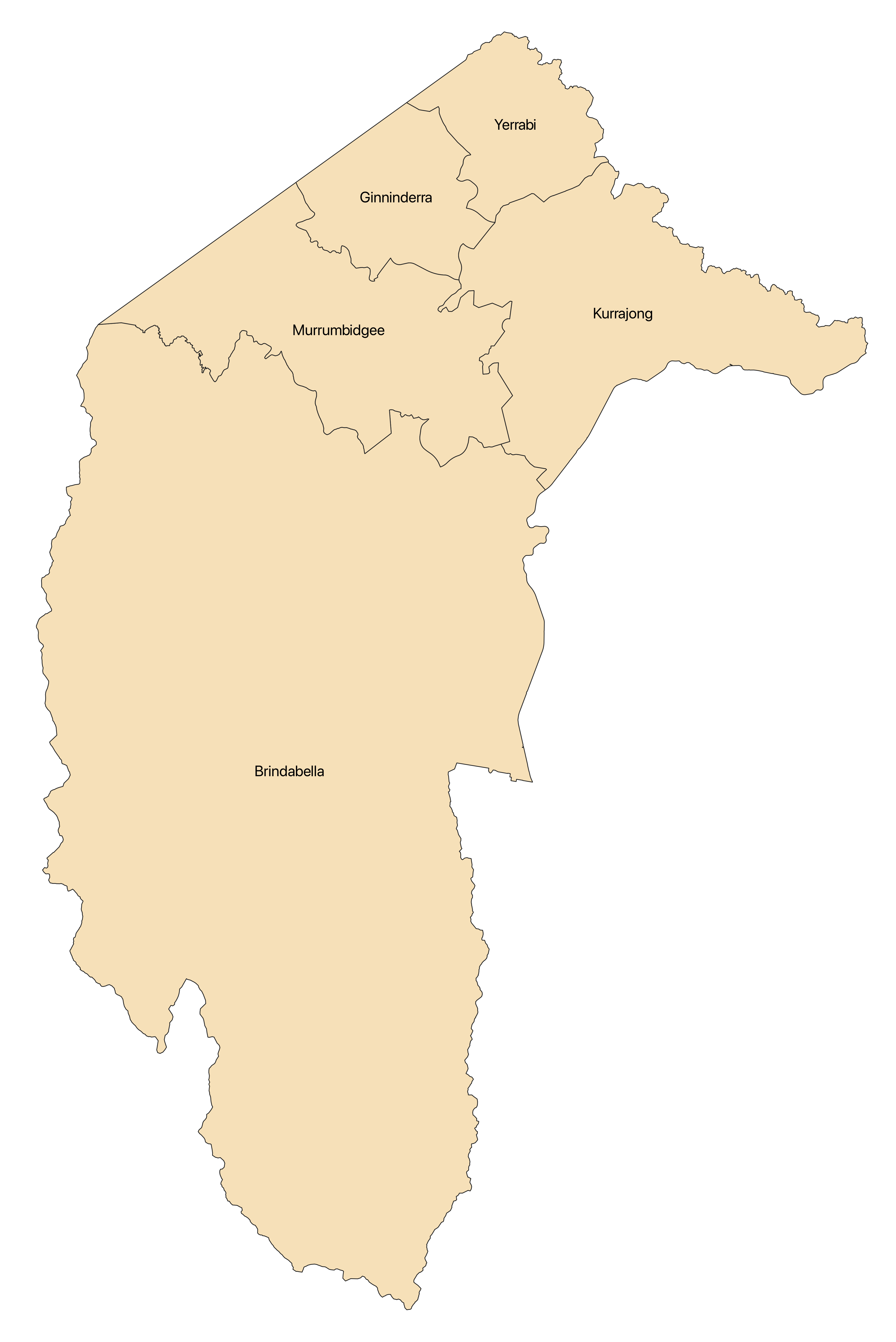 Electorates of the Australian Capital Territory to be used for the 2020 election. Incorporates or developed using data from ACT Government GeoHub (Creative Commons Attribution 4.0 International).